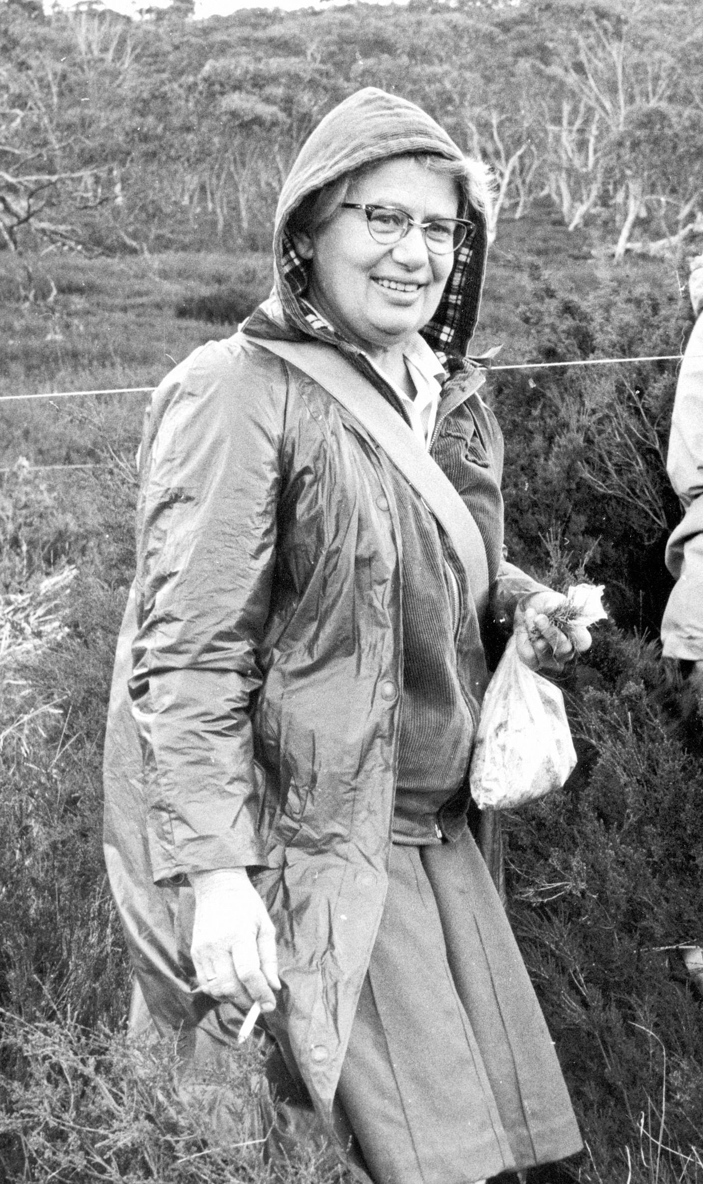 Nancy Tyson Burbidge was a systematic botanist and Curator of the Herbarium, CSIRO Division of Plant Industry, 1946-73. She published Flora of the ACT with Max Gray and several other books on Australian plants. Founding member and twice president, National Parks Association of the ACT and prominent in lobbying for the Tidbinbilla Nature Reserve and Namadgi National Park. Commemorated by an altar-frontal, showing banksias and honey-eaters, in St Michael's Anglican Church, Mount Pleasant, Perth and by the Nancy T. Burbidge Memorial, an amphitheatre in the National Botanic Gardens, Canberra. Biographical details from Bright Sparcs